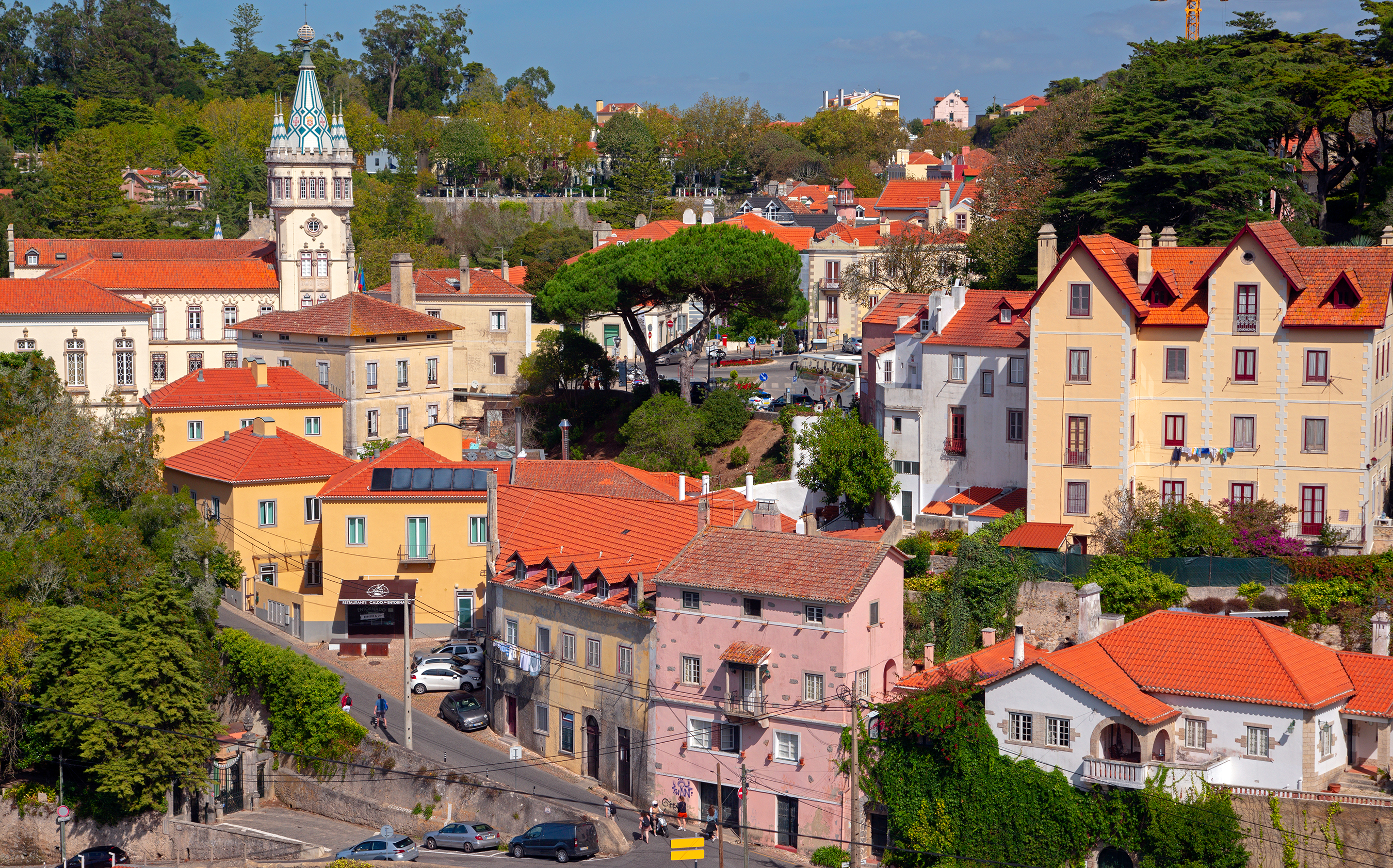 Sintra, part of the historic centre, September 2019